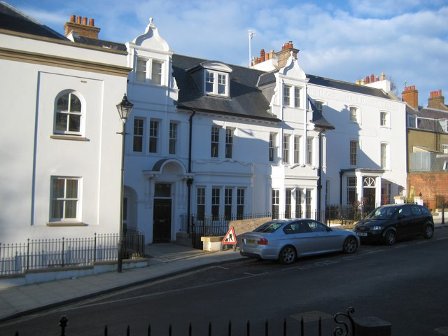 Harrow on the Hill: The former King's Head public house This former public house and hotel is believed to have been built in the late 18th century on the site of King Henry VIII's hunting lodge. It survived until about 2001 before being converted into flats. Numerous blogs have blamed the council for allowing the conversion of this historic and well-remembered landmark and the loss of much of its fine and interesting interior. The carved words "King's Head Hotel" can just about be picked out in the white rendered stonework of the parapet wall of the section of the building to the right.